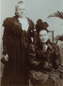 Rosa Morison (standing, 1841-1912) was Lady Superintendent of Women Students at University College London; her friend Eleanor Grove (seated, 1826-1905) was first Principal of College Hall